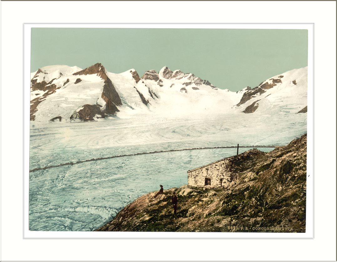 Concordia Hut Valais Alps of Switzerland